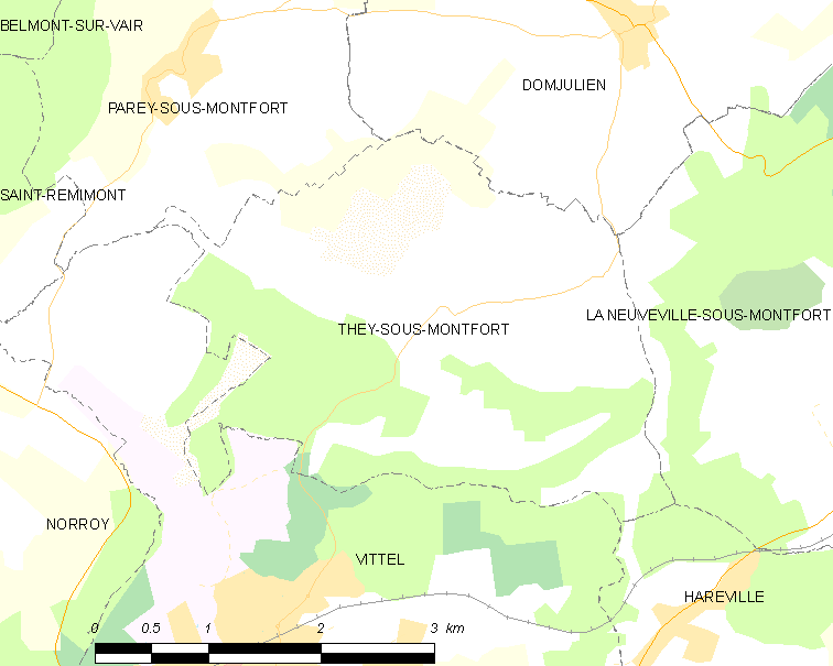 Map of French municipality They-sous-Montfort